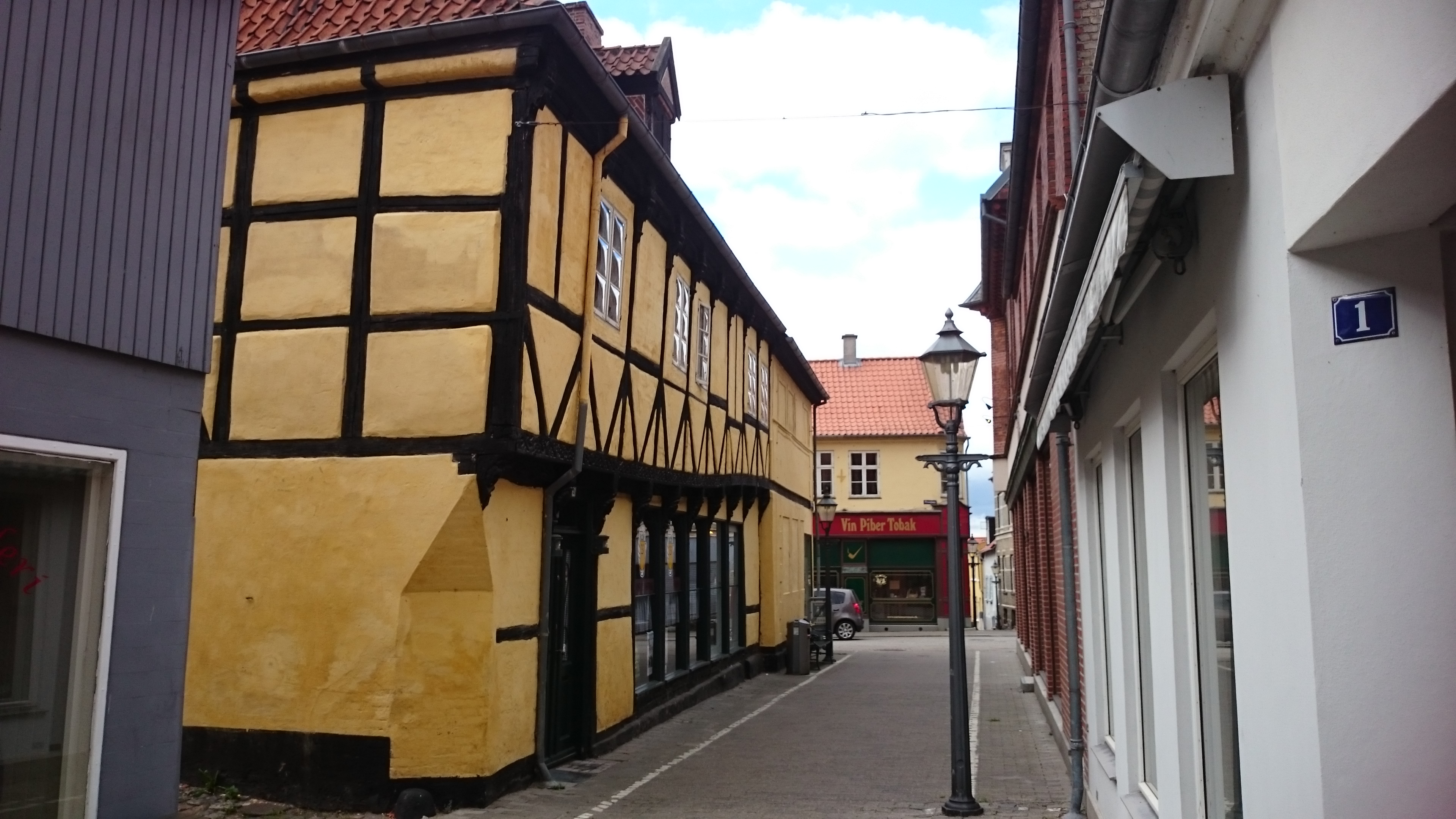 Ritmestergården in Nykøbing Falster is dated to 1630.